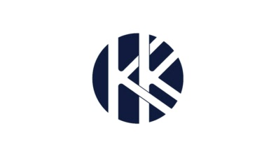 Flag of kamikawa Saitama